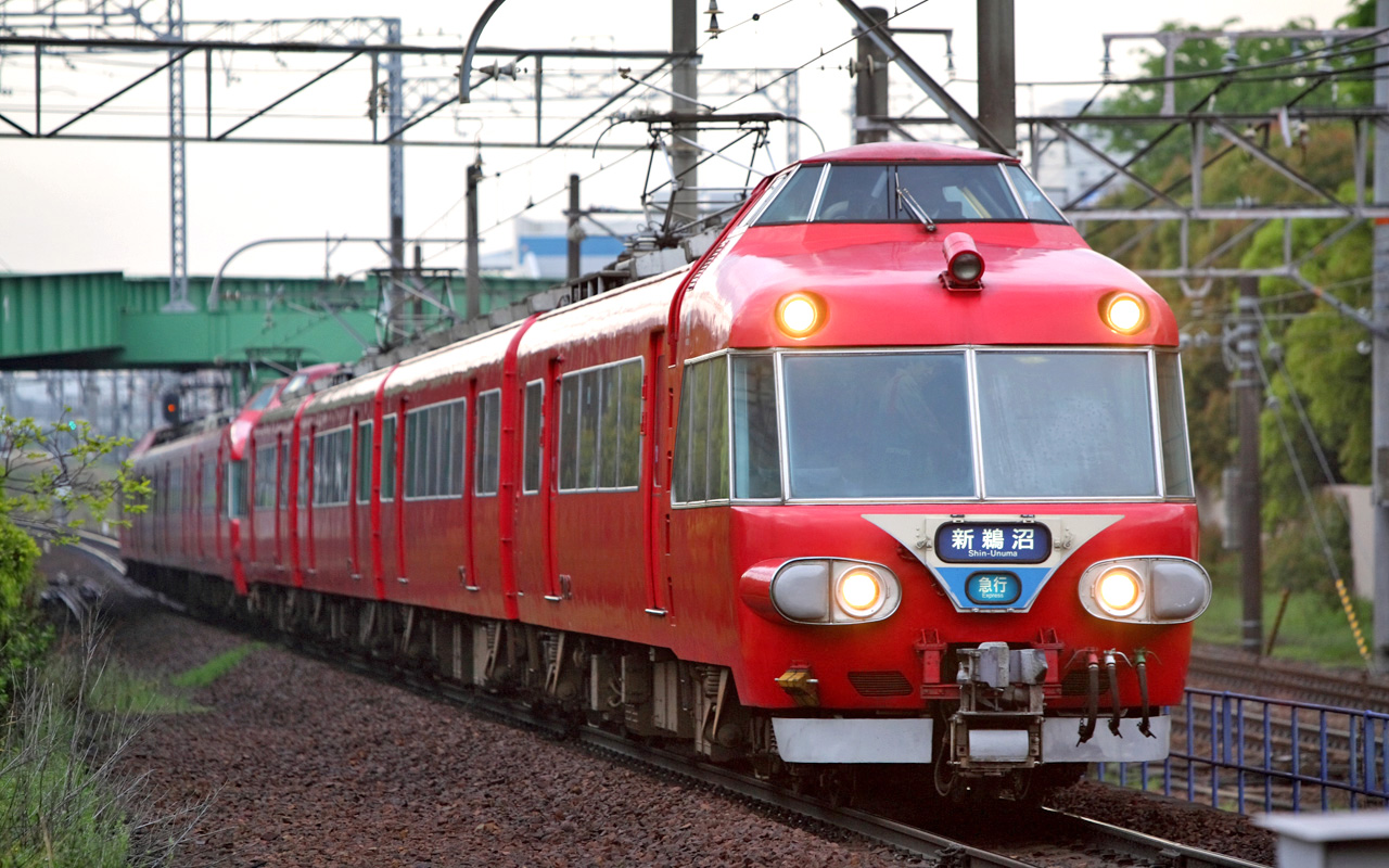 Meitetsu Panorama Car 7000 series EMU ( 7001F + 7043F ), at Jingū-mae Station.